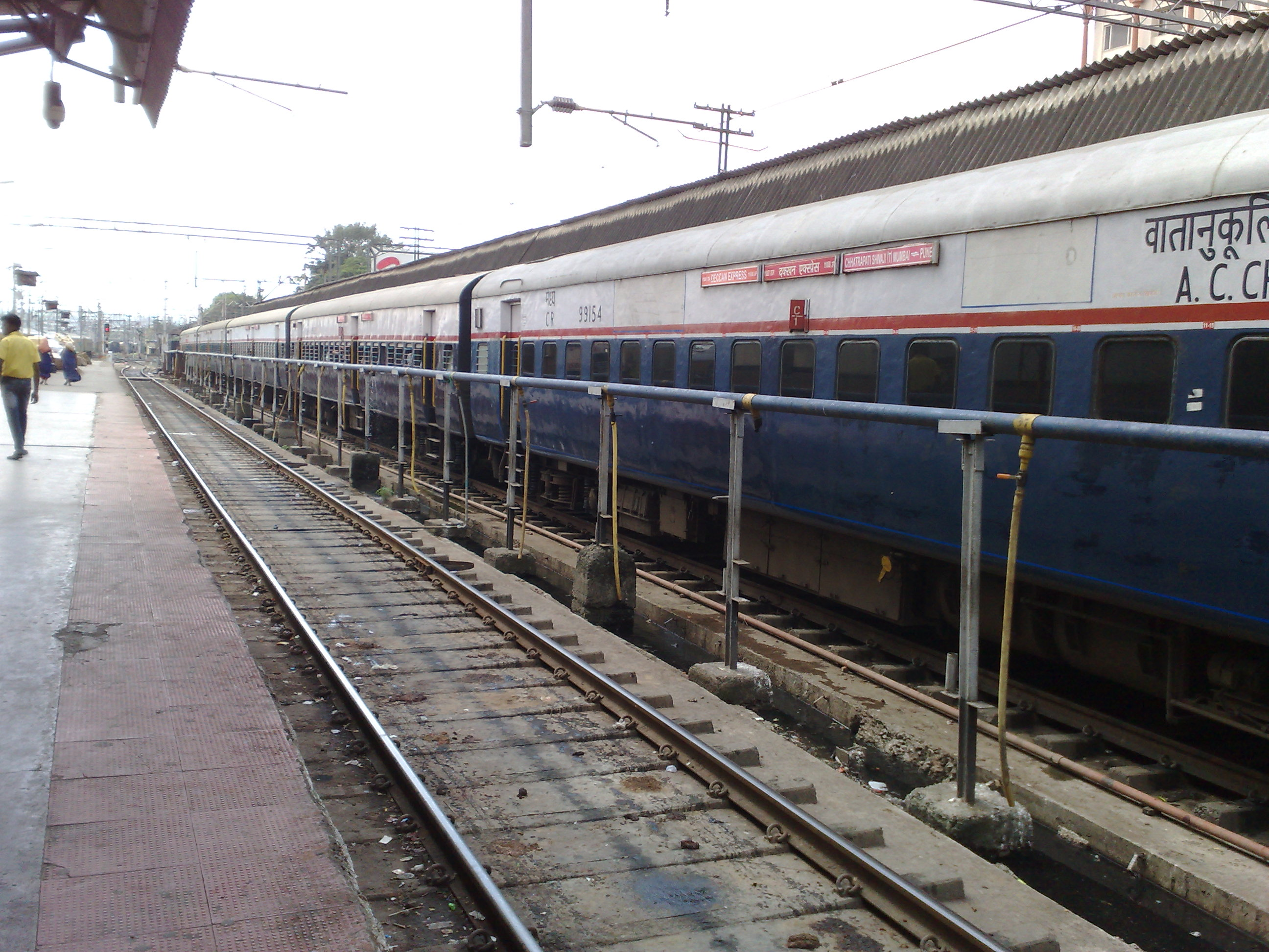 1008 Deccan Express at Pune Junction